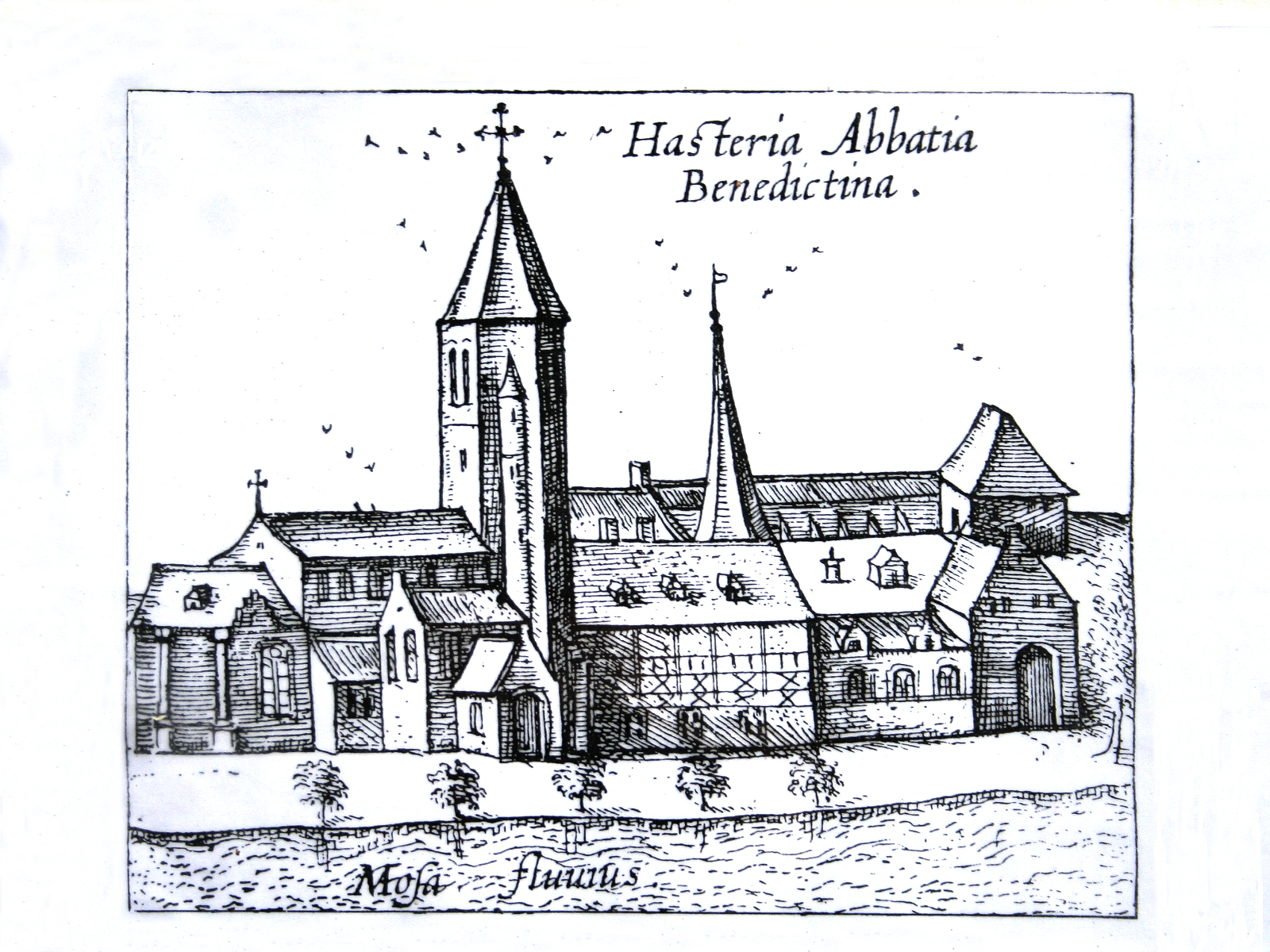 Hastière-par-delà (Belgium), engraving of the St. Peter's Abbey (1033-1035) by Gramaye (1608).